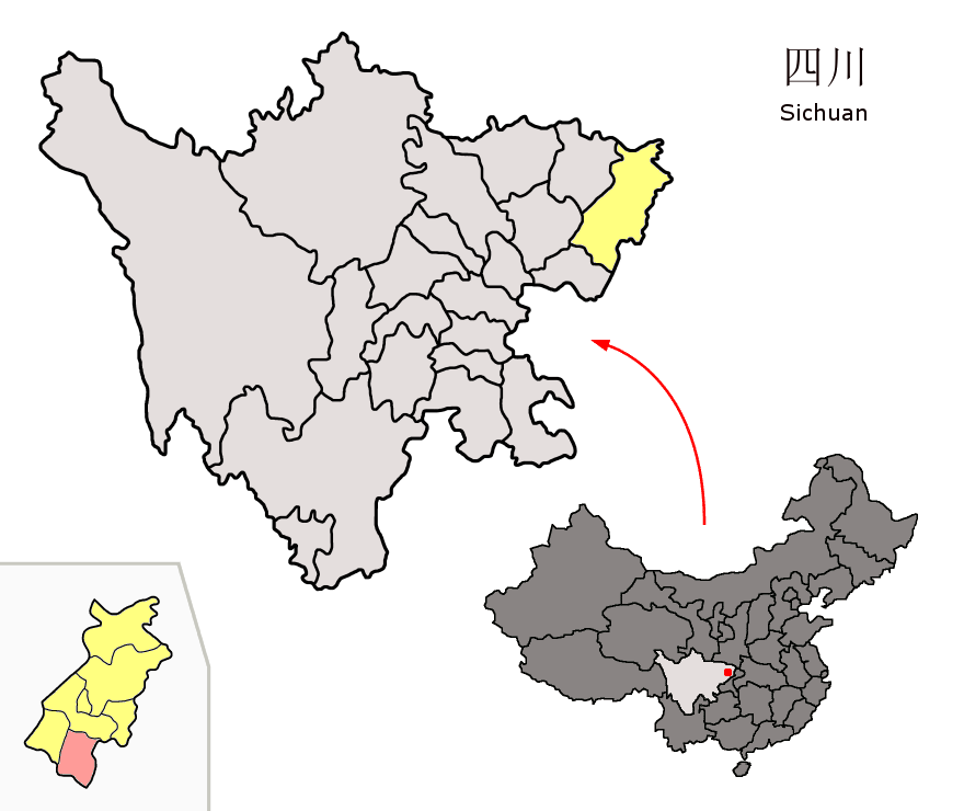 Location of Dazhu County (pink) and Dazhou Prefecture (yellow) within Sichuan province of China Map drawn in october 2007 using various sources, mainly : Sichuan province administrative regions GIS data: 1:1M, County level, 1990 Sichuan Counties map from